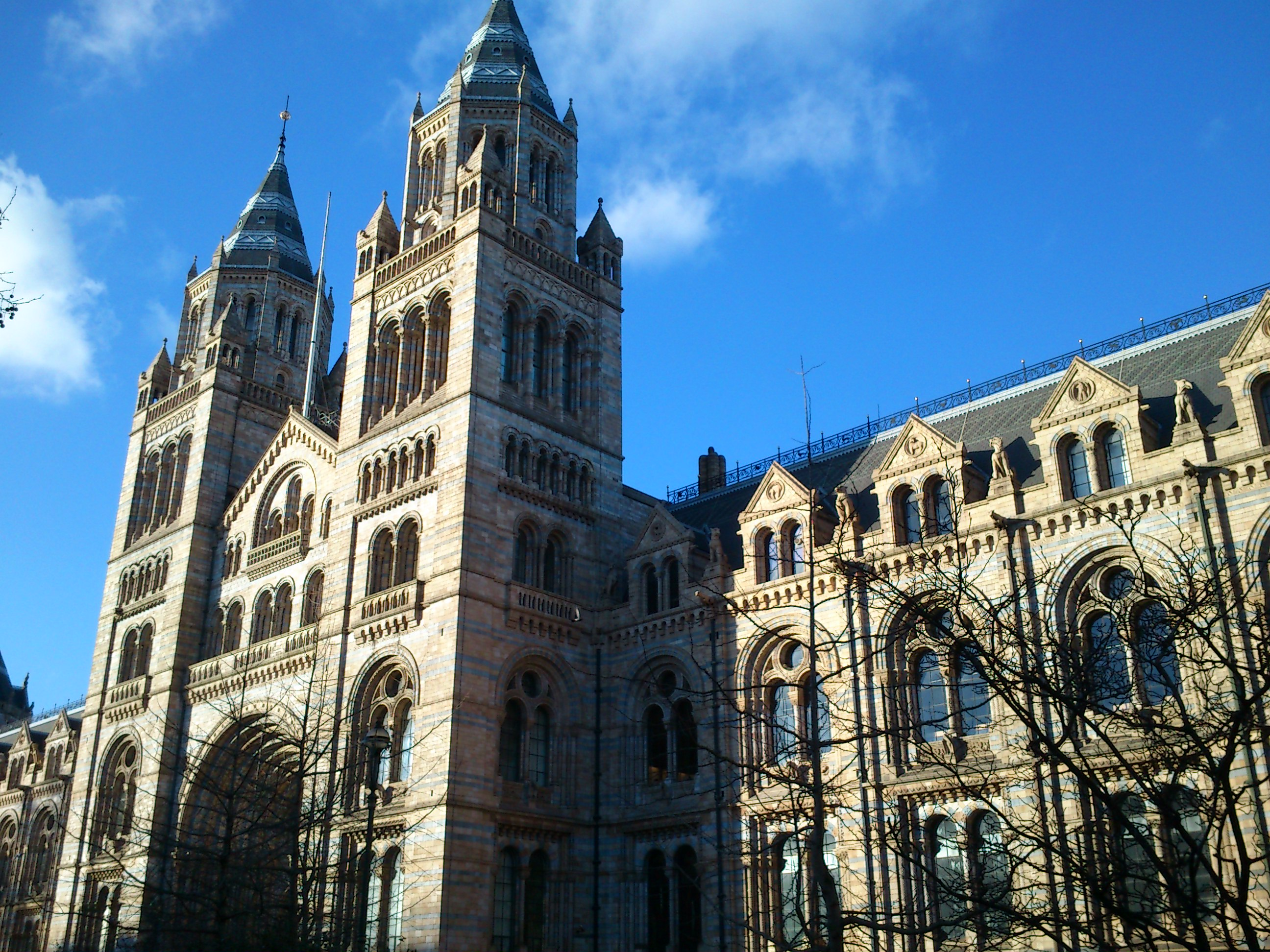 Natural History Museum Wikidata has entry Q309388 with data related to this item.